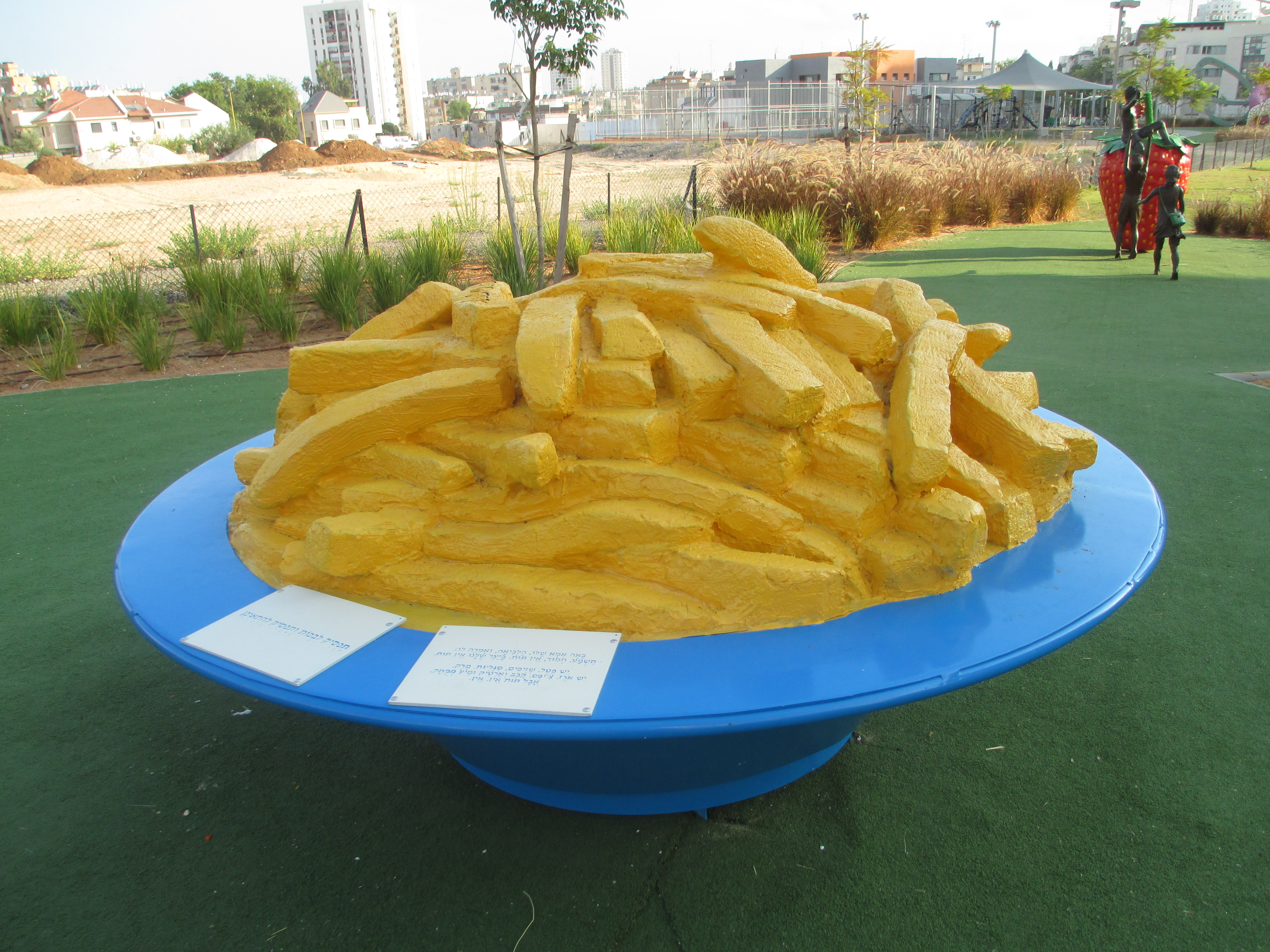 The lion that loved strawberry story garden in Holon